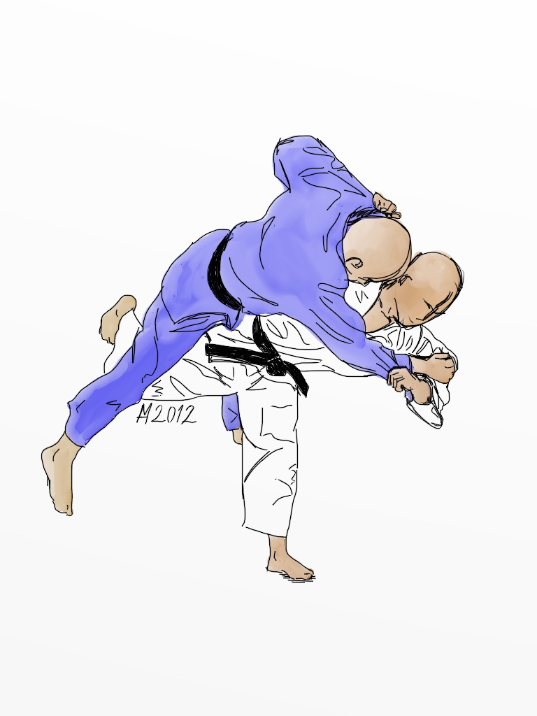 Illustration of the judo throw known as uchimata, or inner-thigh-throw, where you turn in front of the opponent and throw the opponent by sweeping your leg between the legs of the opponent.